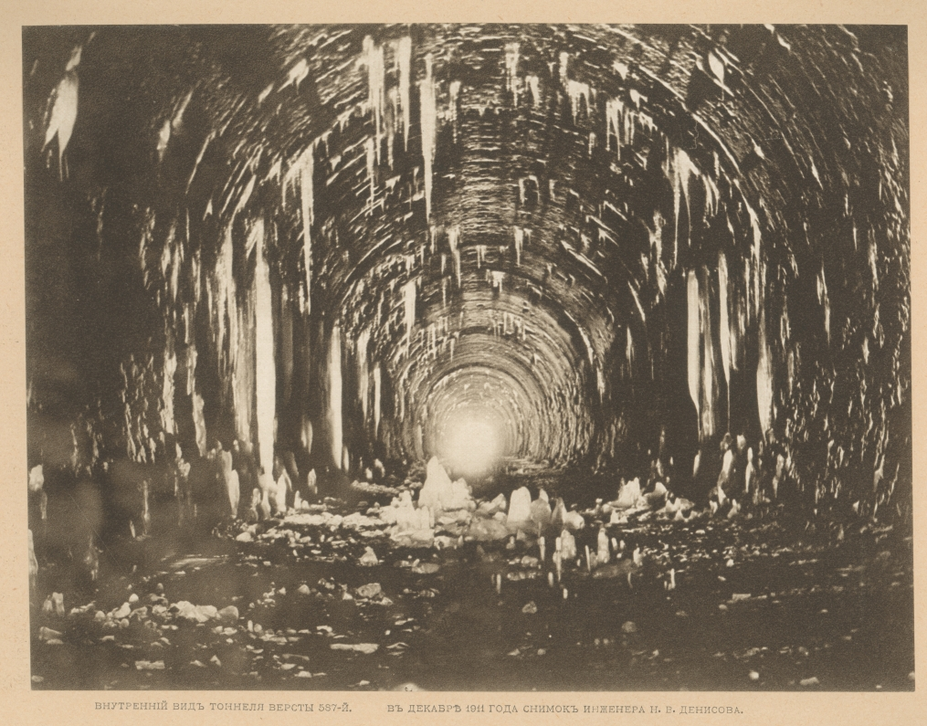 View inside a tunnel of the Amur Railway (587th verst) during construction